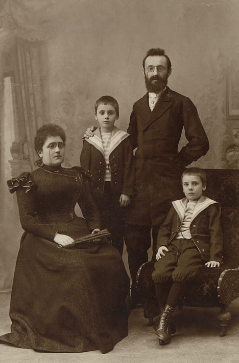 Ivan Georgov, Elisaveta Georgova, Vladimir and Evgeny Georgovi